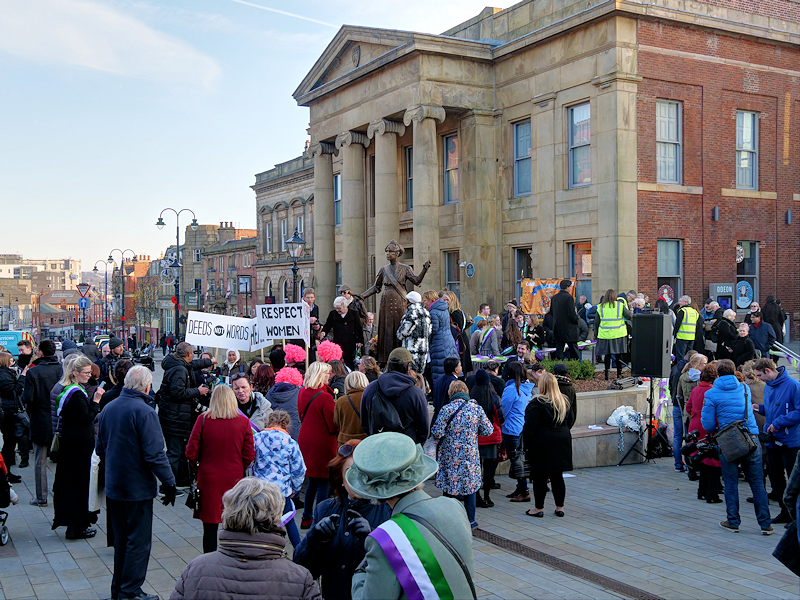 Parliament Square and the Old Town Hall, Oldham